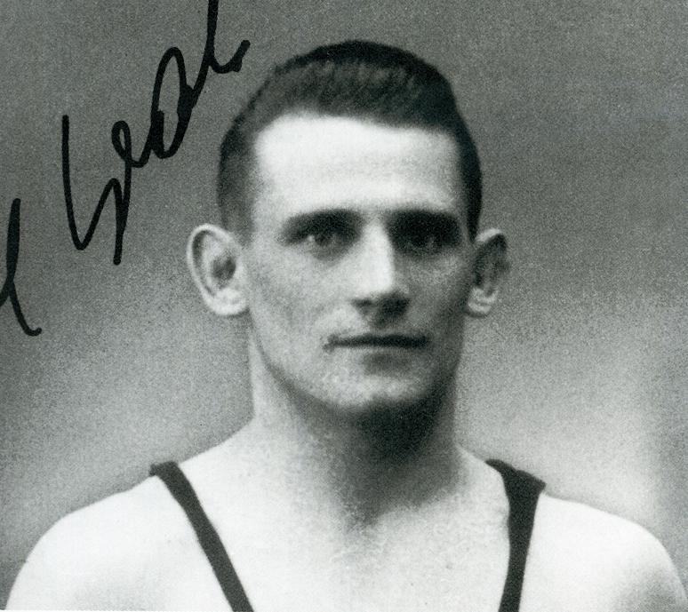 Voldemar Väli before the 1924 Olympics